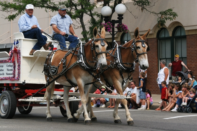 Heritage Days Parade, Macomb, Illinois.